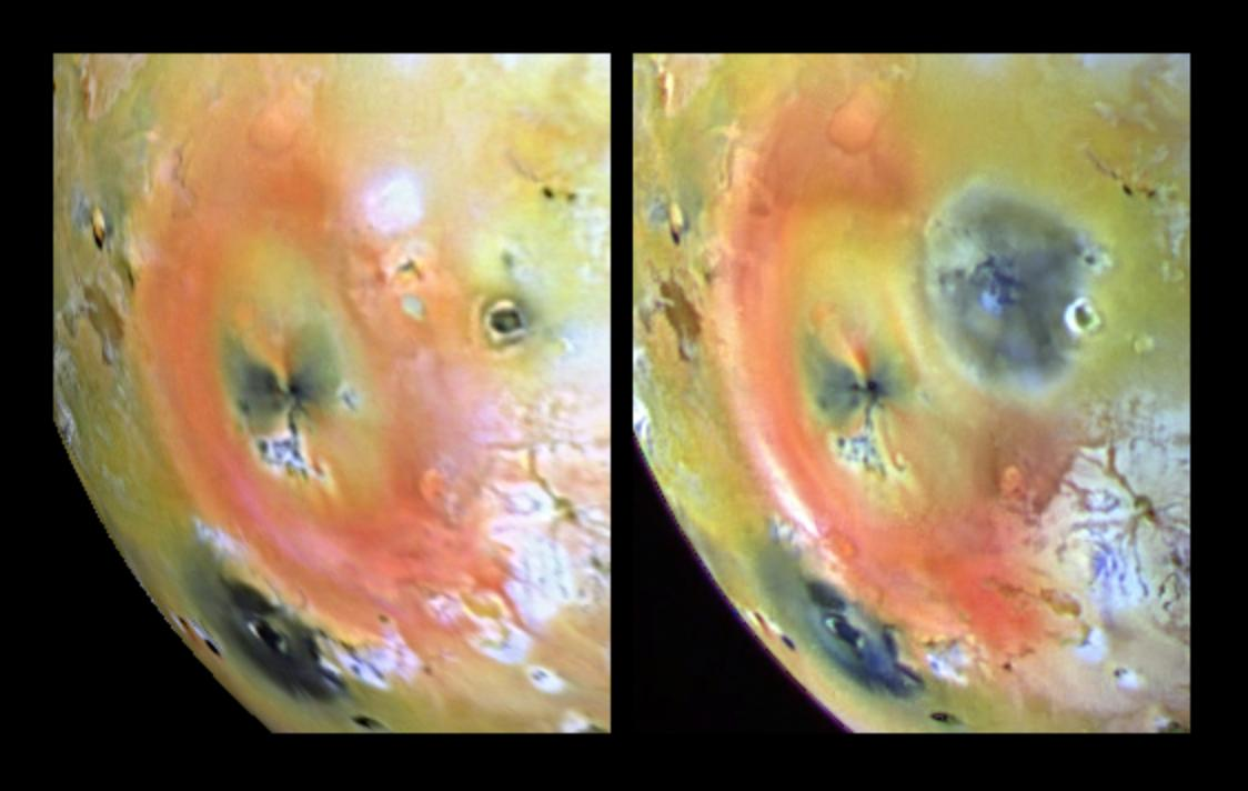 These are before and after photos of a volcanic eruption at Pillan Patera on the moon Io. It occurred during a five-month period between April and September 1997, during the Galileo spacecraft's seventh and tenth orbits, respectively. The new dark spot around Pillan is approximately 400 kilometers (249 miles) in diameter. Galileo imaged a 120 kilometer (75 mile) high plume erupting from this location during its ninth orbit. Just southwest of this location is the volcano Pele, which is surrounded by a bright red ejecta blanket. The images are taken 168 Earth days apart.